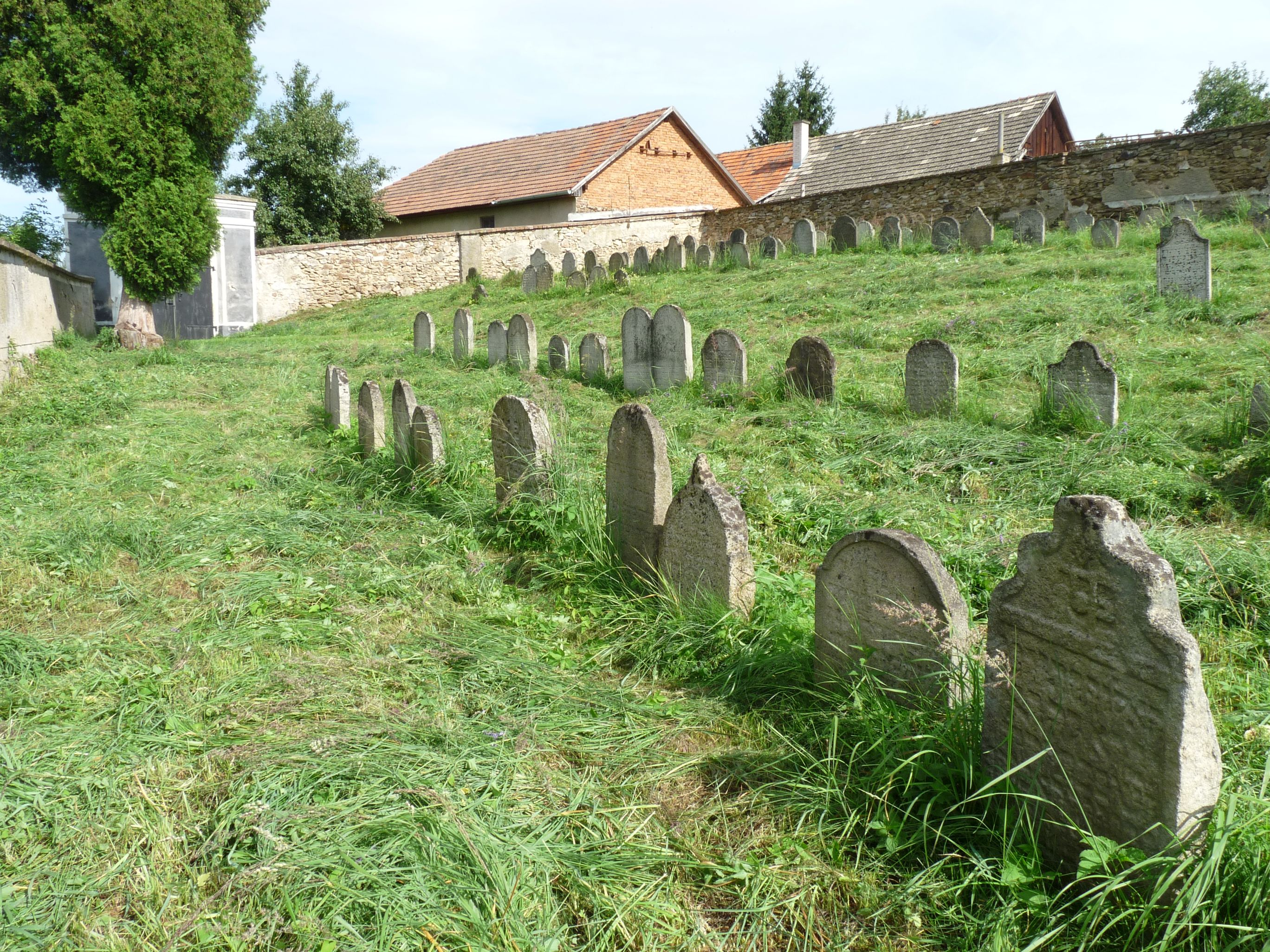 Jewish cemetery in the market town of Nová Cerekev, Pelhřimov District, Czech Republic